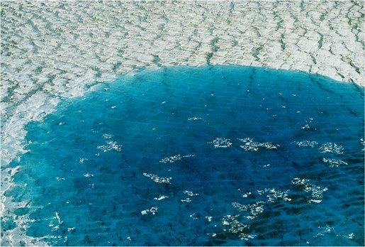 July 1995 oblique aerial photograph of most of a circular, blue water, supraglacial lake lake on the surface of Bering Glacier, the largest Alaskan glacier, located east of Cordova. The lake formed during the 1993-95 surge of the glacier. The lake has a diameter of ~ .5 miles. Bering Glacier flows through Wrangell-Saint Elias National Park. Chugach Mountains, Alaska.